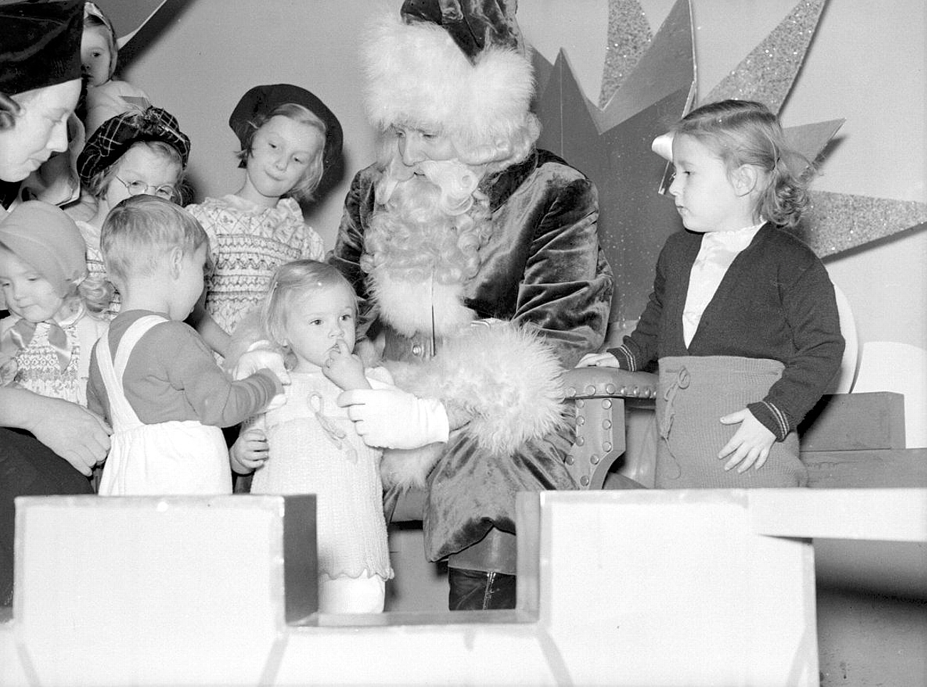 Children visiting Santa Claus, Eaton's department store, St. Catherine Street, Montreal, Canada.